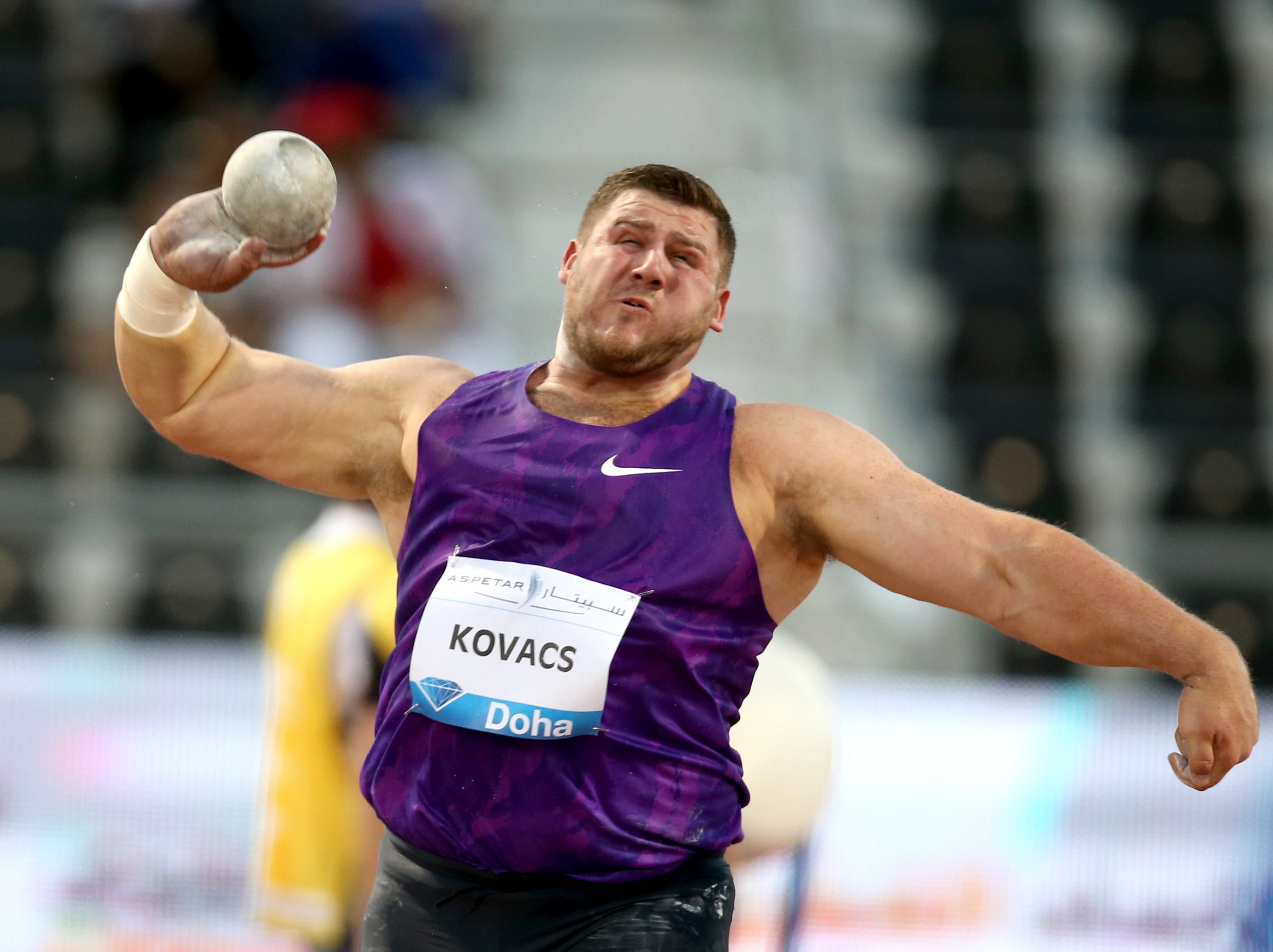 American shot putter Joe Kovacs competes in the Doha Diamond League. Pic by Mohan